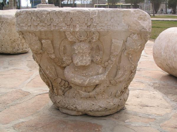 Capital of Khusrau II